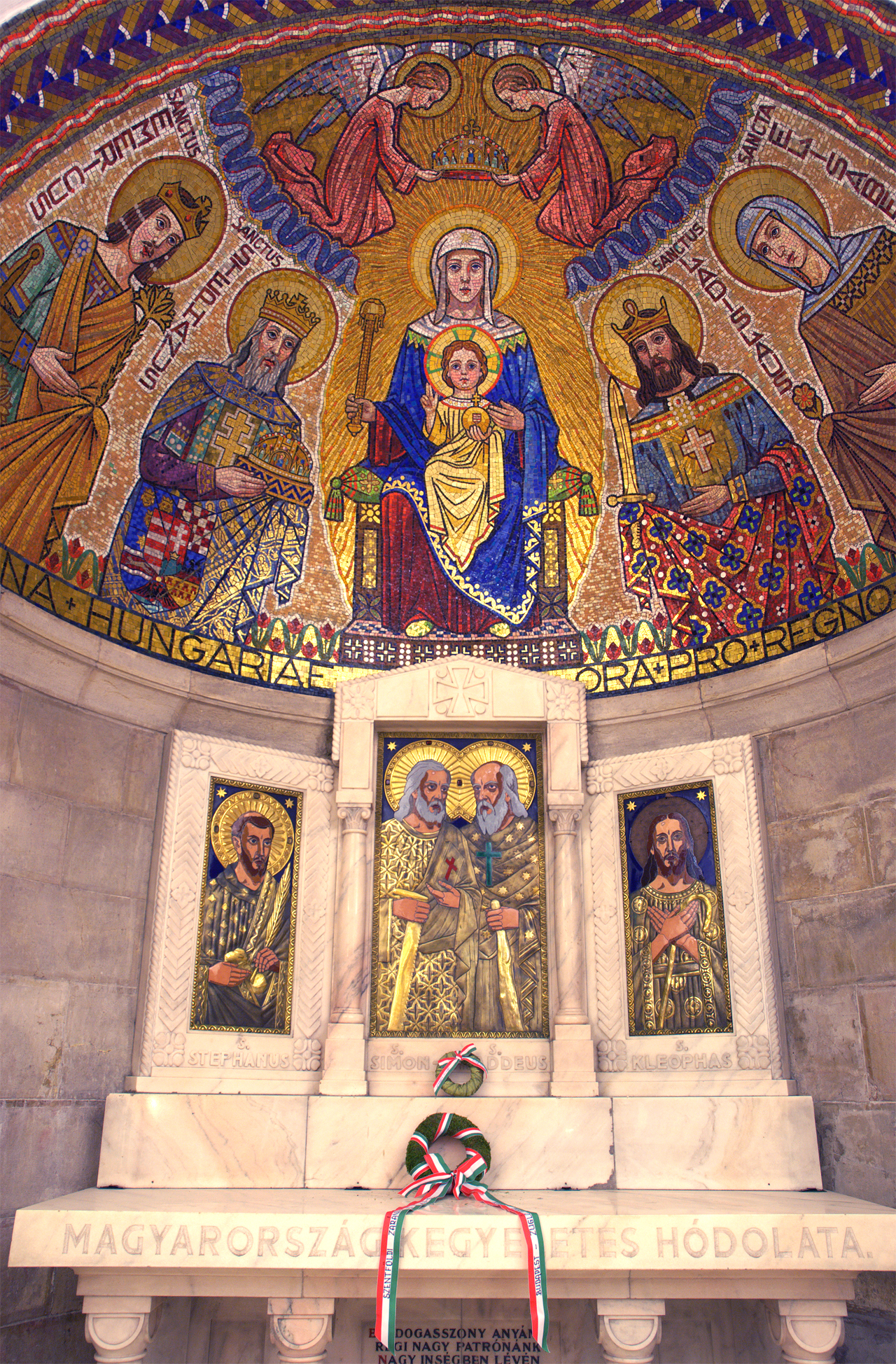 The Hungarian Chapel in the crypt of Dormition Church (Hagia Maria Sion Abbey), Jerusalem. The Hungarian royal saints visible above the altar (from left to right): Prince St. Imre, Saint Stephen I, (the Virgin and the Child), Saint Ladislaus I, Saint Elisabeth of Hungary The inscription on the altar "Magyarország kegyeletes hódolata." means "The pious reverence of Hungary."